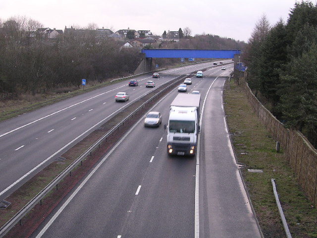 M73 plus Blue Railway Bridge